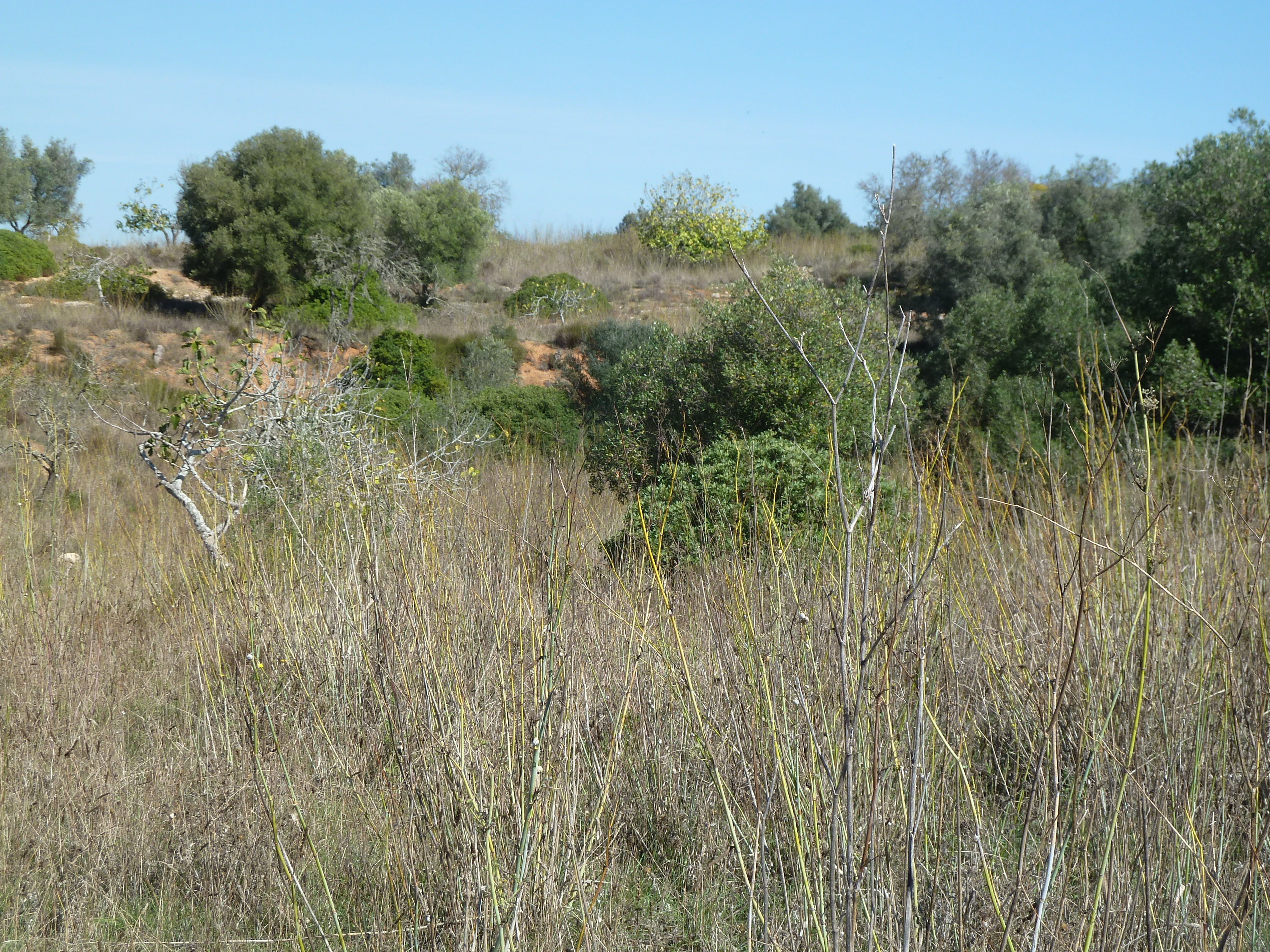 Ria de Alvor Nature Reserve, Alvor, Algarve, Portugal end of October 2015. Garrigue and (now scrubland) former produce gardens and orchards.